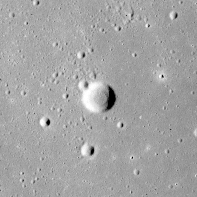 Caventou, Mare Imbrium, on the moon. Camera Altitude is 106 km, Sun Elevation is 24° (from right).